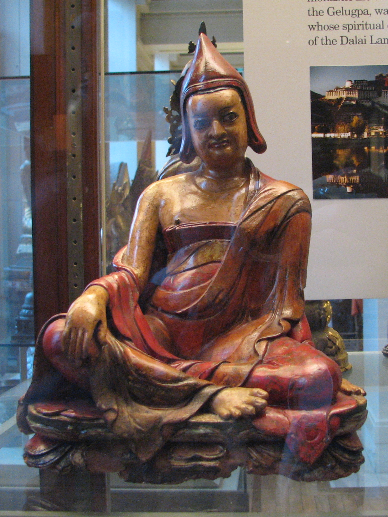 Figure of seated Lama; of painted and varnished papier-mâché; Tibet or perhaps Ladakh; 19th century AD, or erlier; now the British Museum